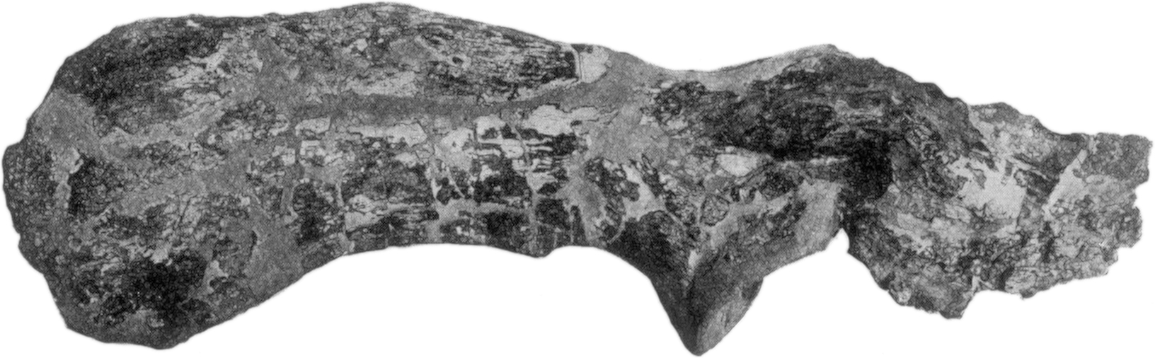 Scapula and coracoid of Ankylosaurus (specimen AMNH 5895).